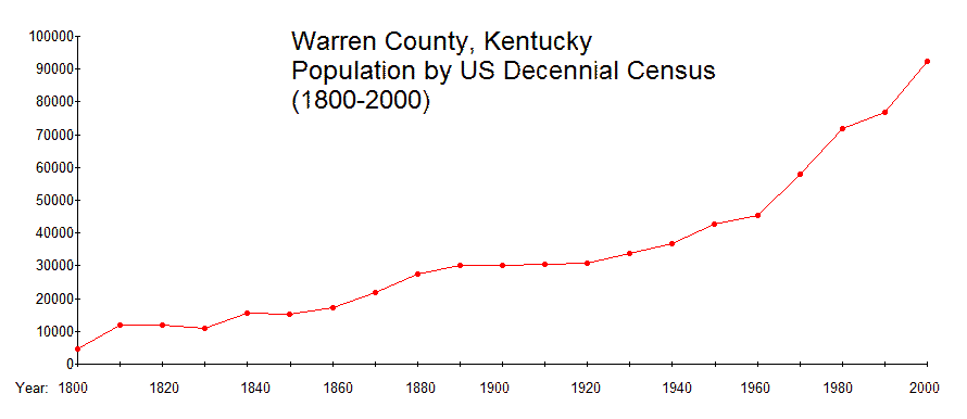 Warren County graph. Created by uploader, all rights released.